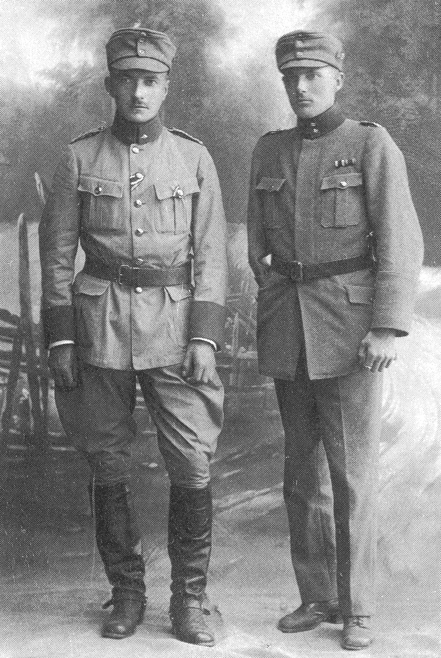 Jäger officers Gunnar von Hertzen and Ragnar Nordström.